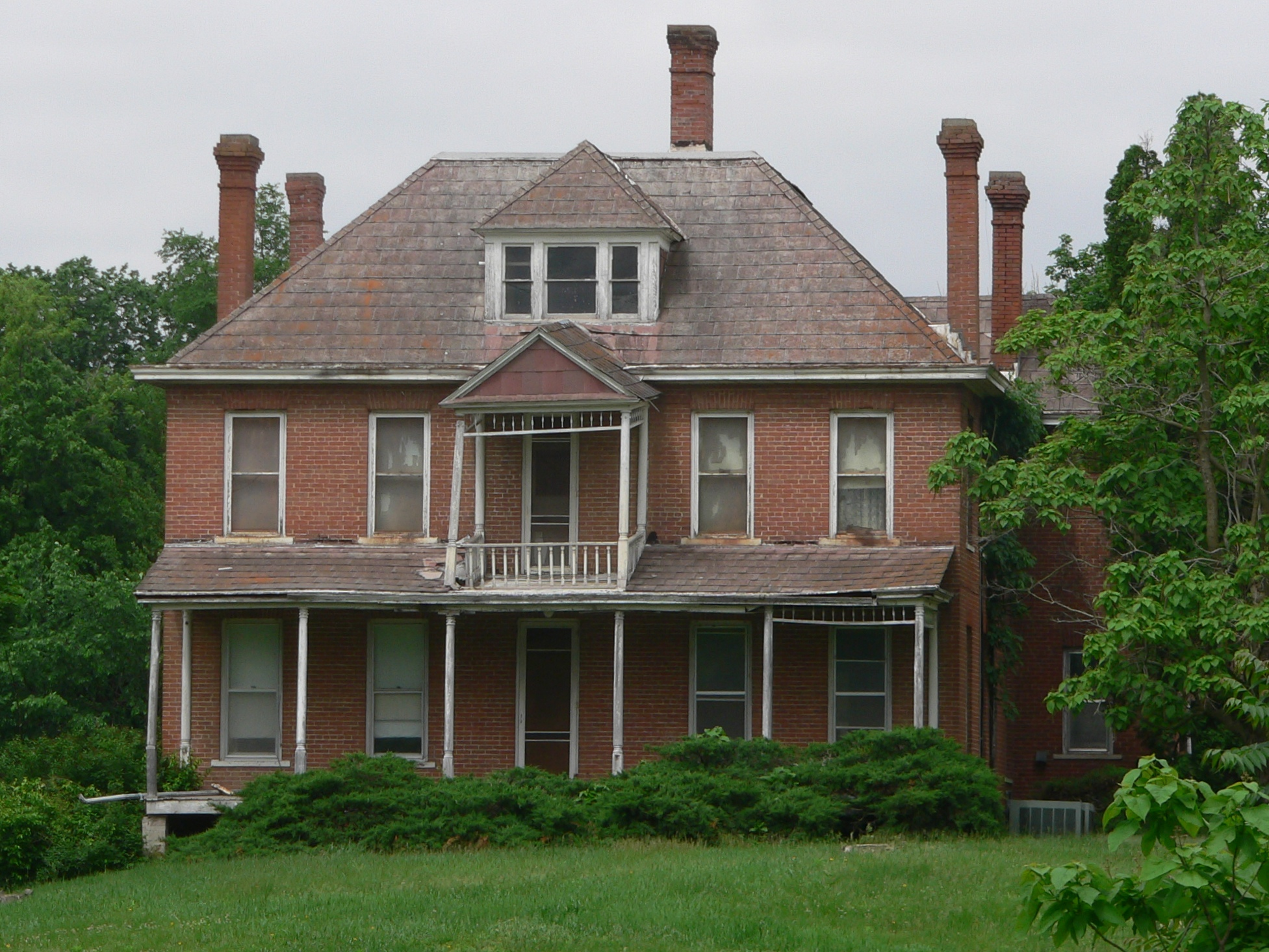 Thomas J. Majors farmstead, at 800 Mulberry Street at the northwestern outskirts of Peru, Nebraska: house, seen from the east.